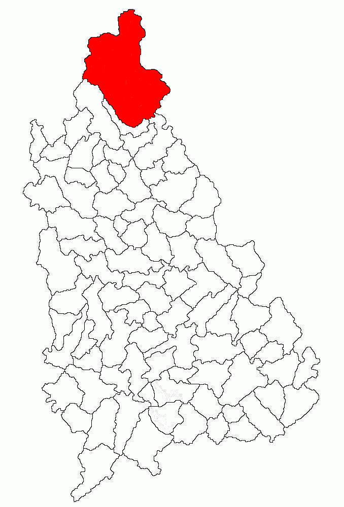 Locator map of Moroeni in Dâmbovița County, Romania